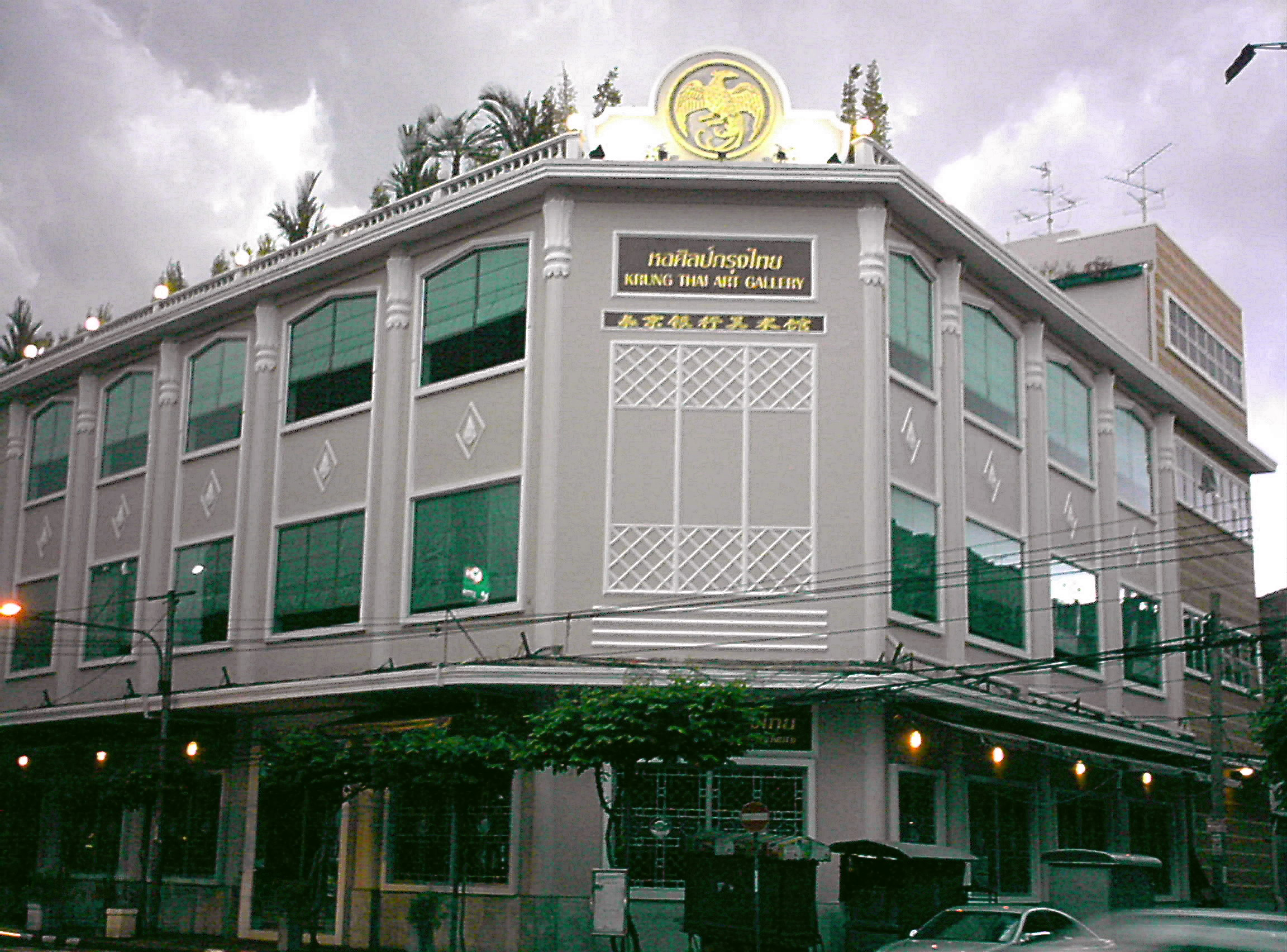 Krung Thai Art Gallery, Bangkok, Thailand. 中文（香港）: 泰國，曼谷，泰京銀行美術館